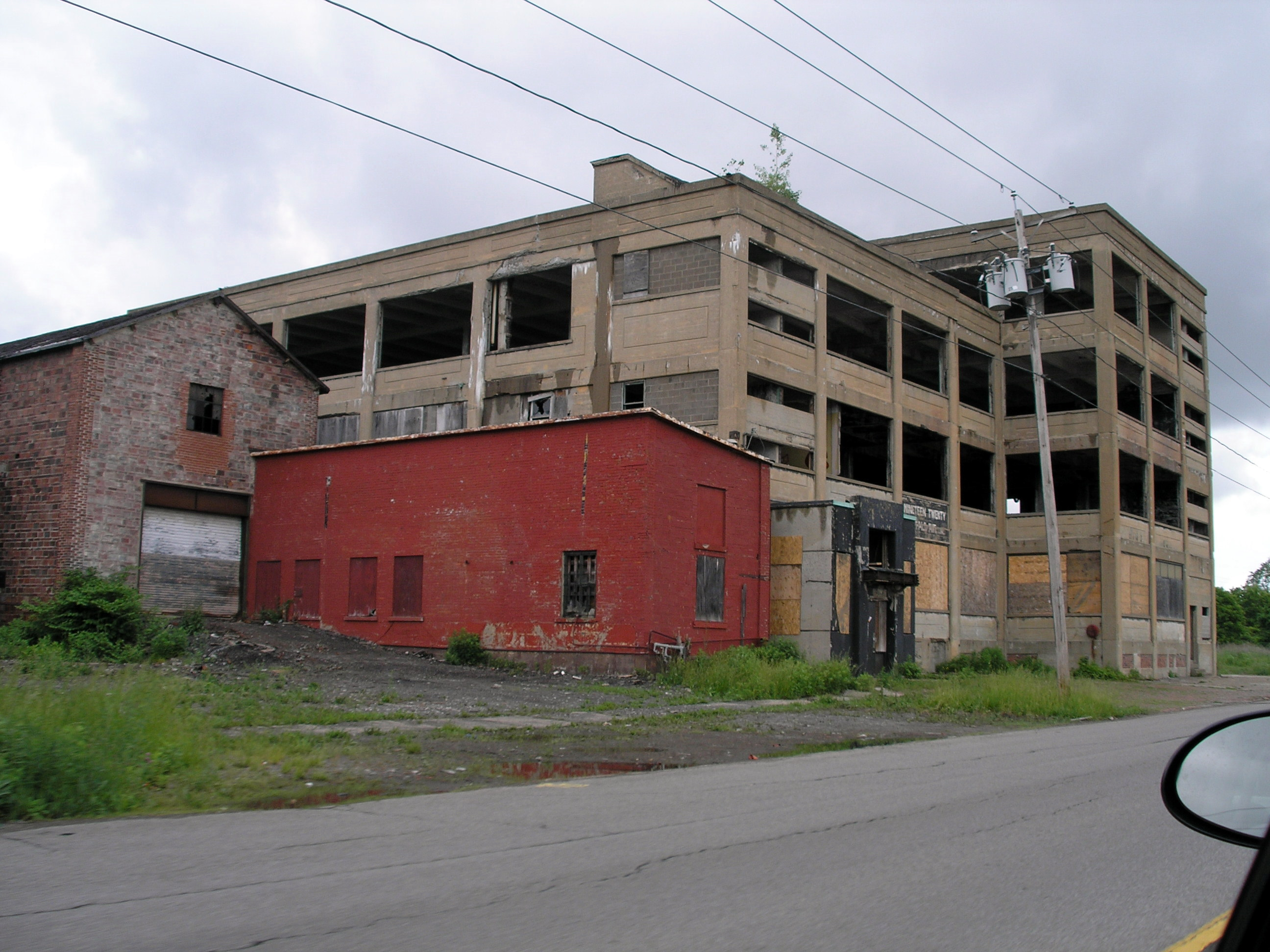 Taken at Niagara Falls, NY at June, 2007 at Buffalo ave.